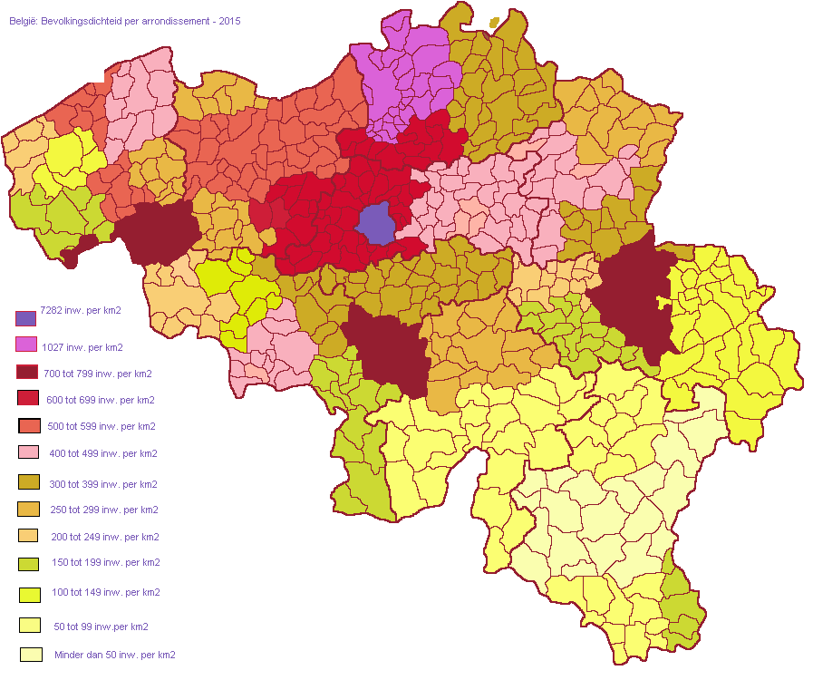 Belgium population density per arrondissement